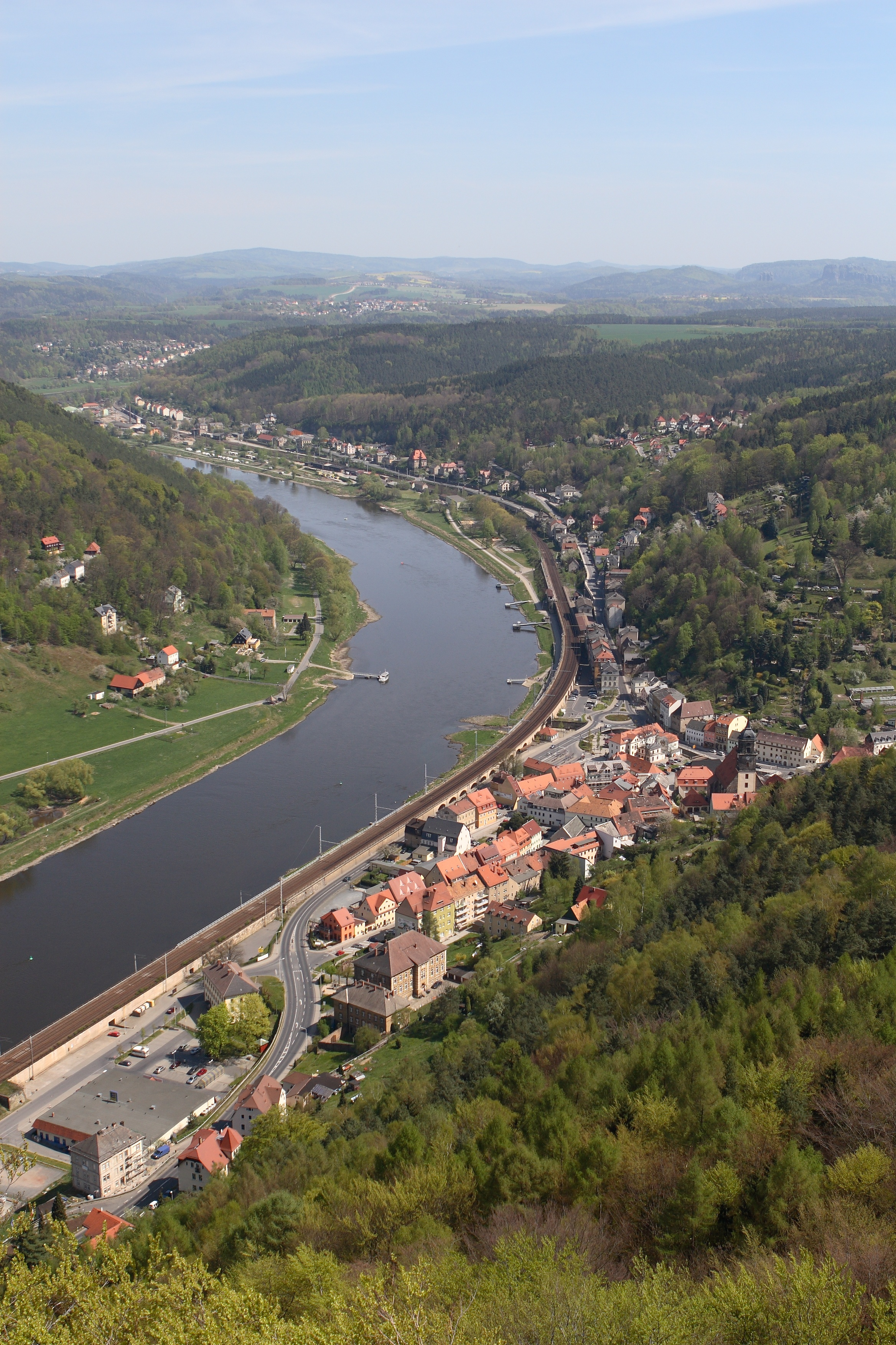 The city Königstein in Saxony (Germany) taken from the Königstein Fortress, with view over the Saxon Switzerland and the upstream river Elbe.